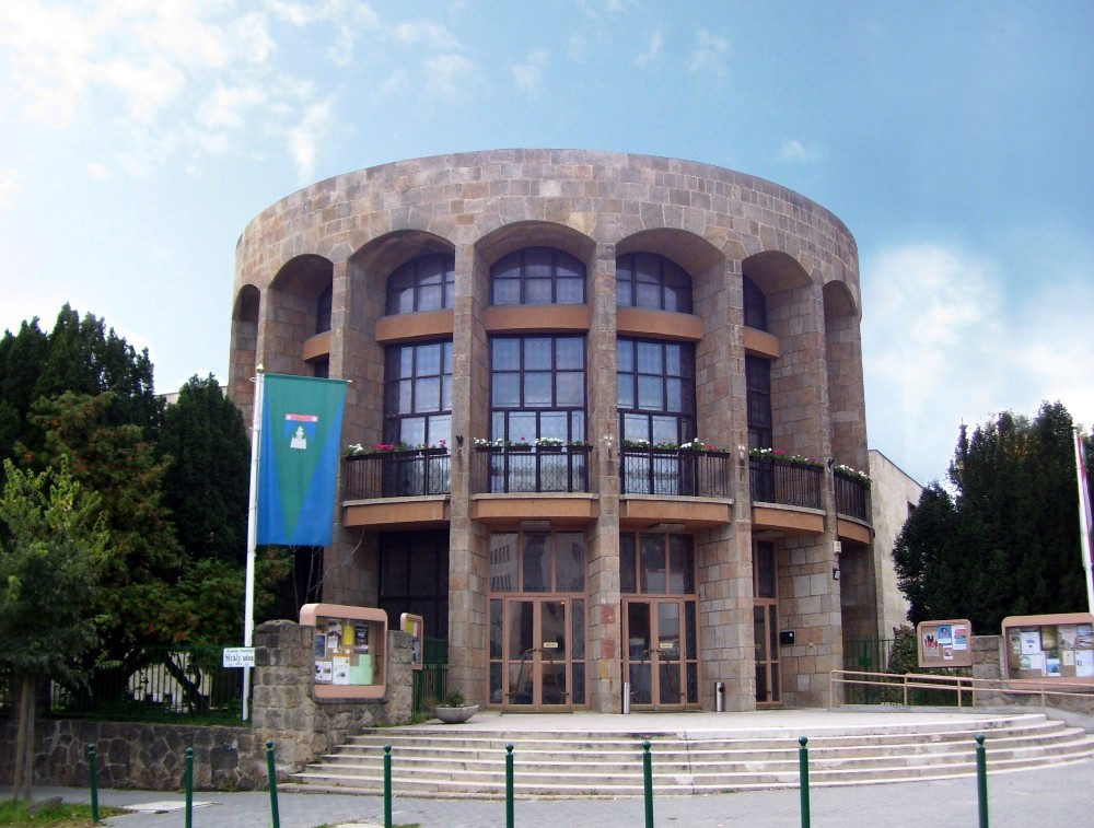 Arts center in the 12th district in Budapest (Csörsz utca 18)